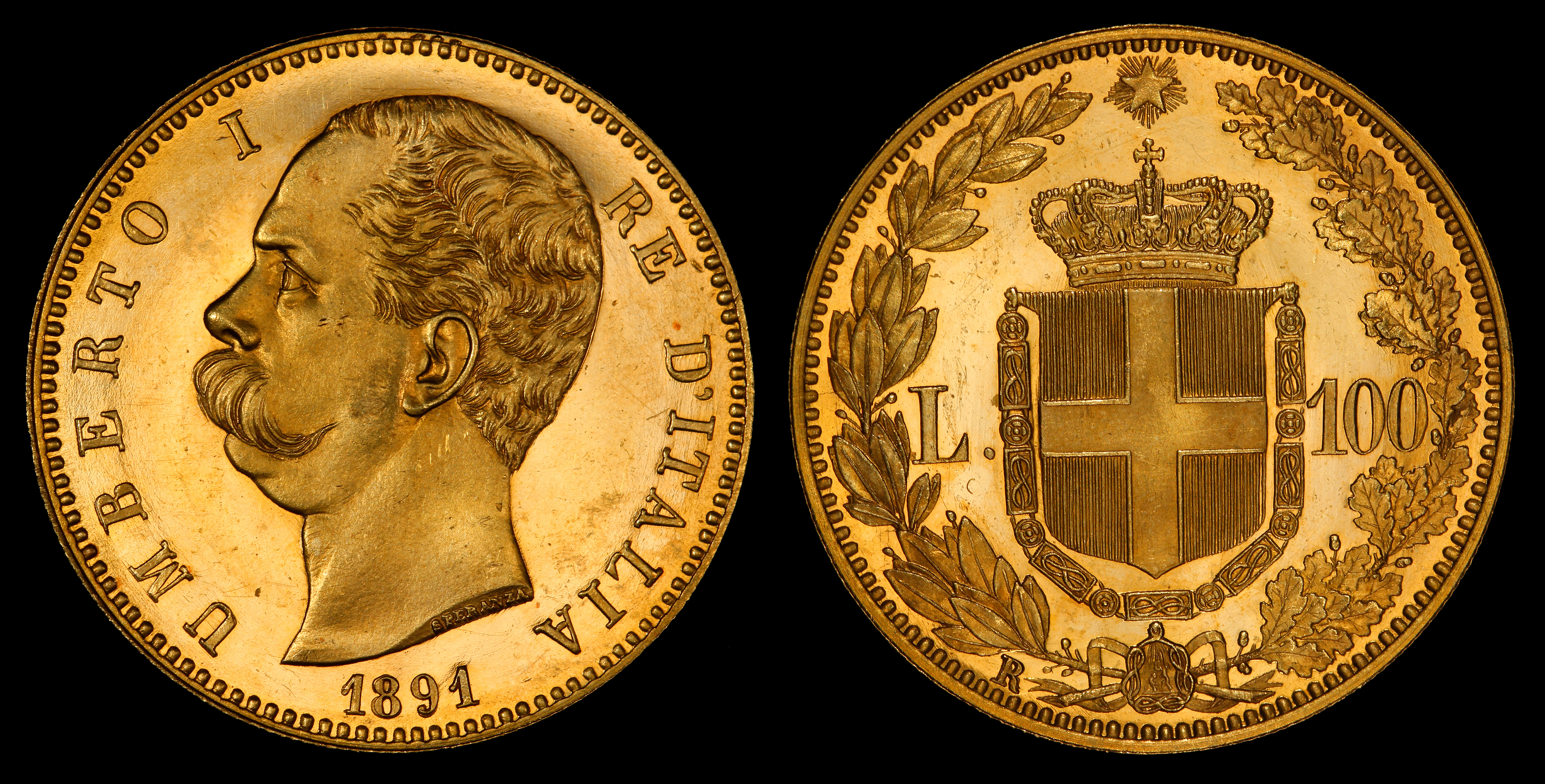 Italy, 100 Lira (1891). Depicting Umberto I.